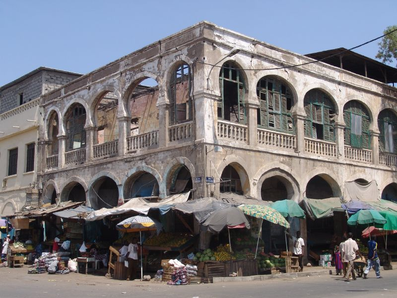 Downtown Djibouti city. Image taken by Charles Fred on flickr. The creator has granted GFDL licensing and permission for use in the wikimedia project.